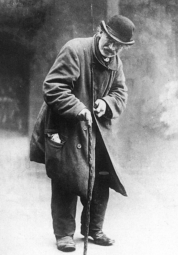 Jürgen Heinrich Keberle (1835–1913), known as Heini Holtenbeen, was a popular, eccentric character in Bremen, Germany.